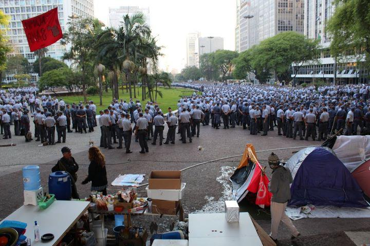 Occupy Sao Paulo Under Threat. Geraldo Alckmin, governor of the state of São Paulo, has decided to hold a parade of 3000 military police right next to the encampment (see photo above).